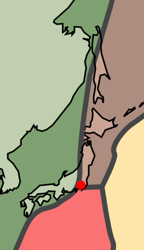 Tectonic plates under Japan with Tokyo marked with a red dot